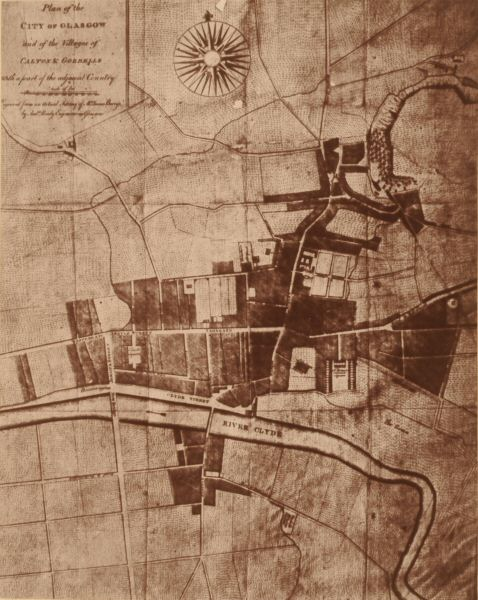 Map of Glasgow in 1776